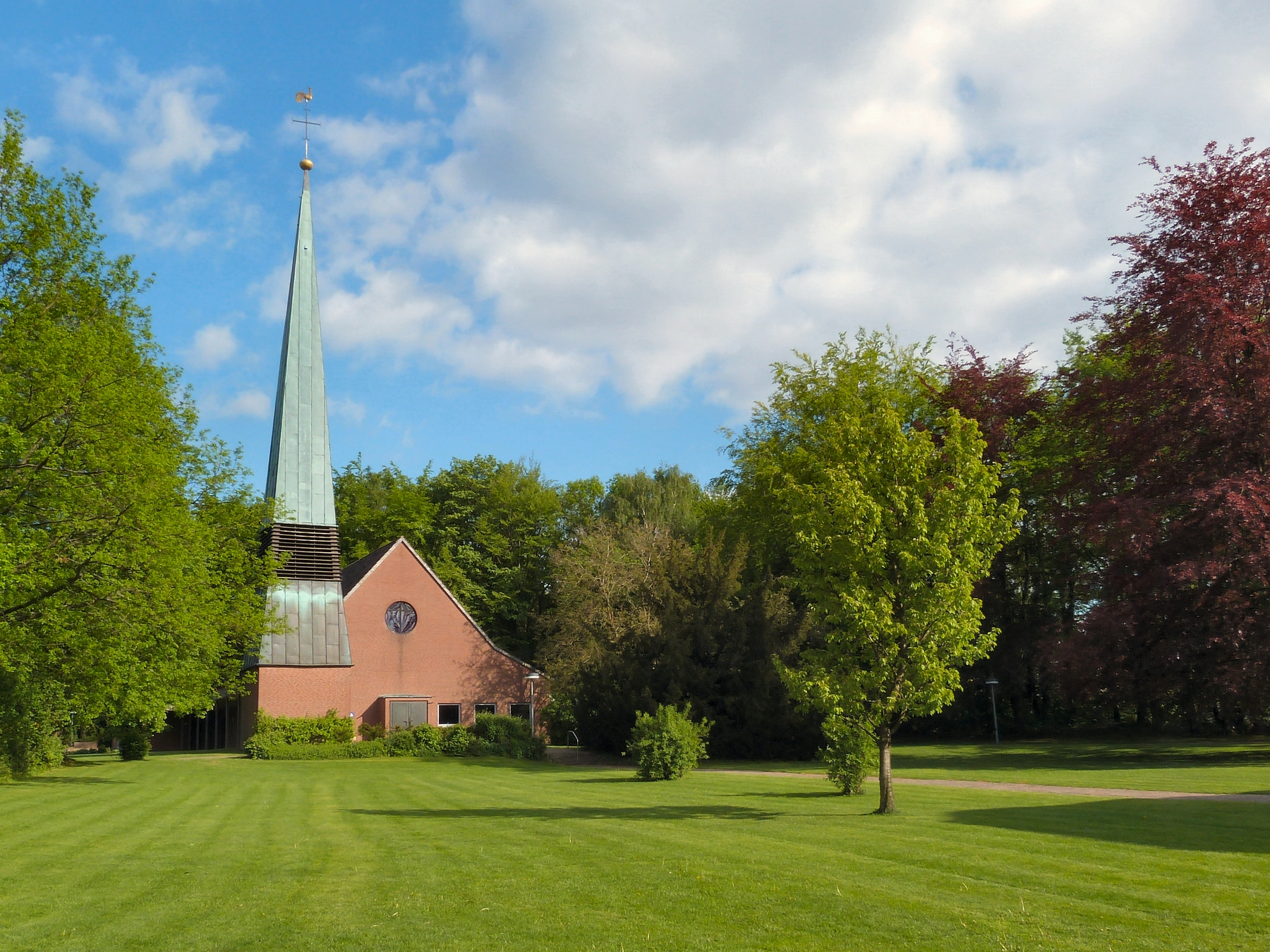 The parish church in the city Wehrendorf Vlotho